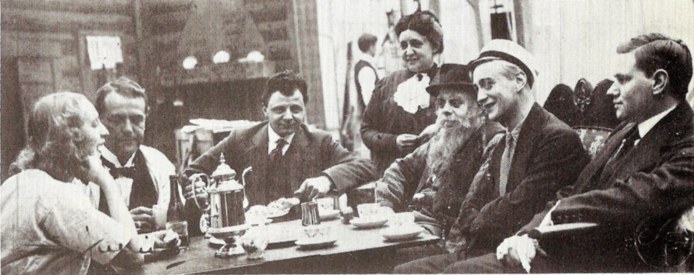 Picture from the shooting of Victor Sjöströms Trädgårdsmästaren (1912). From left to right: Lili Bech, Victor Sjöström, John Ekman, Karin Alexandersson, Gunnar Bohman, Gösta Ekman and unknown. Scanned from the book Victor Sjöström by Bengt Forslund (1980).